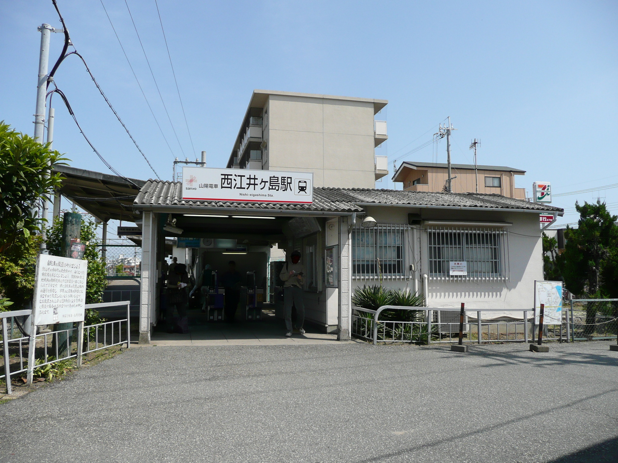 Sanyo Electric Railway,Nishi-Eigashima Station. / 山陽電気鉄道西江井ヶ島駅